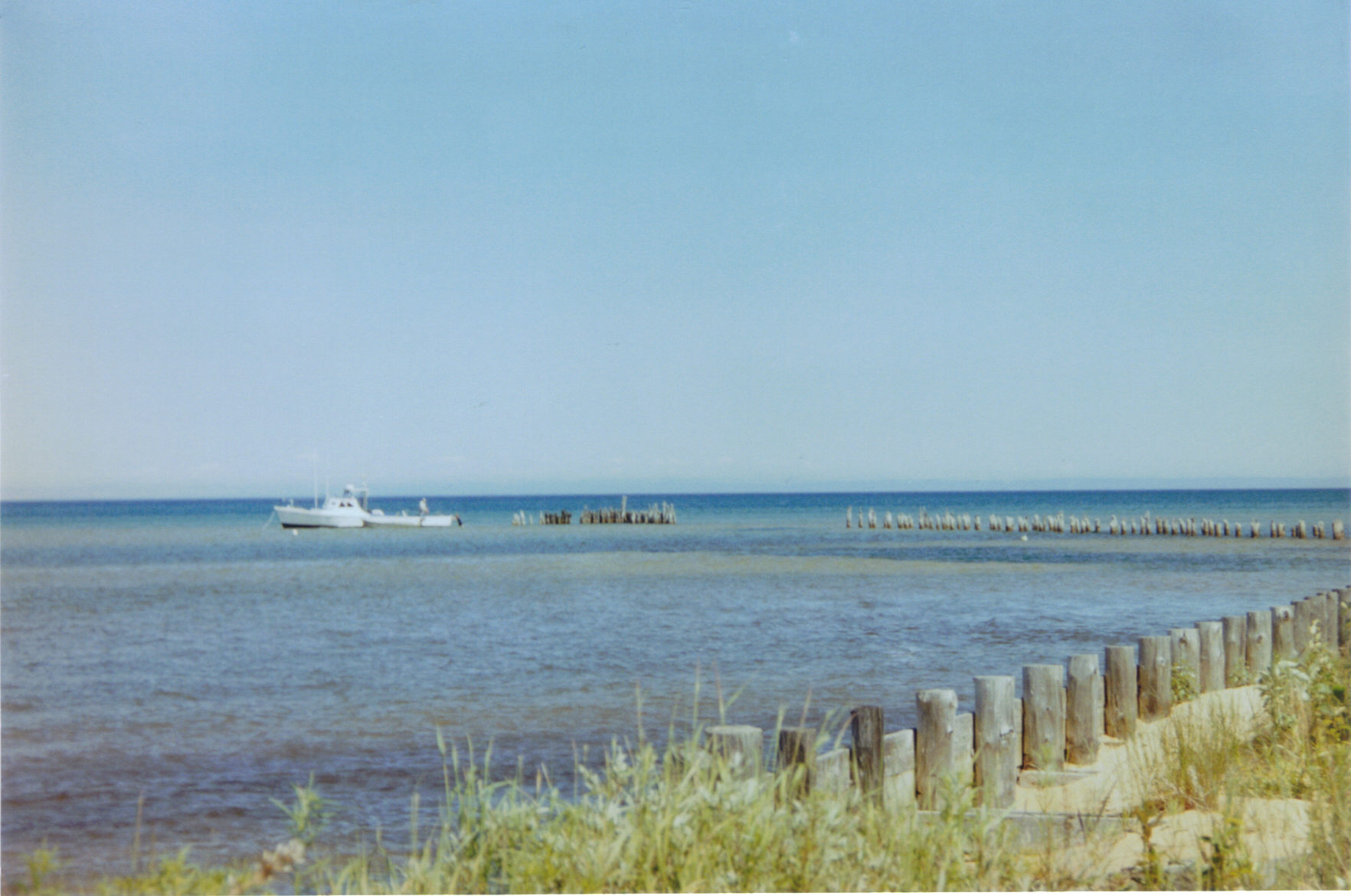 Remnants of Shelldrake tramway for loading lumber onto ships